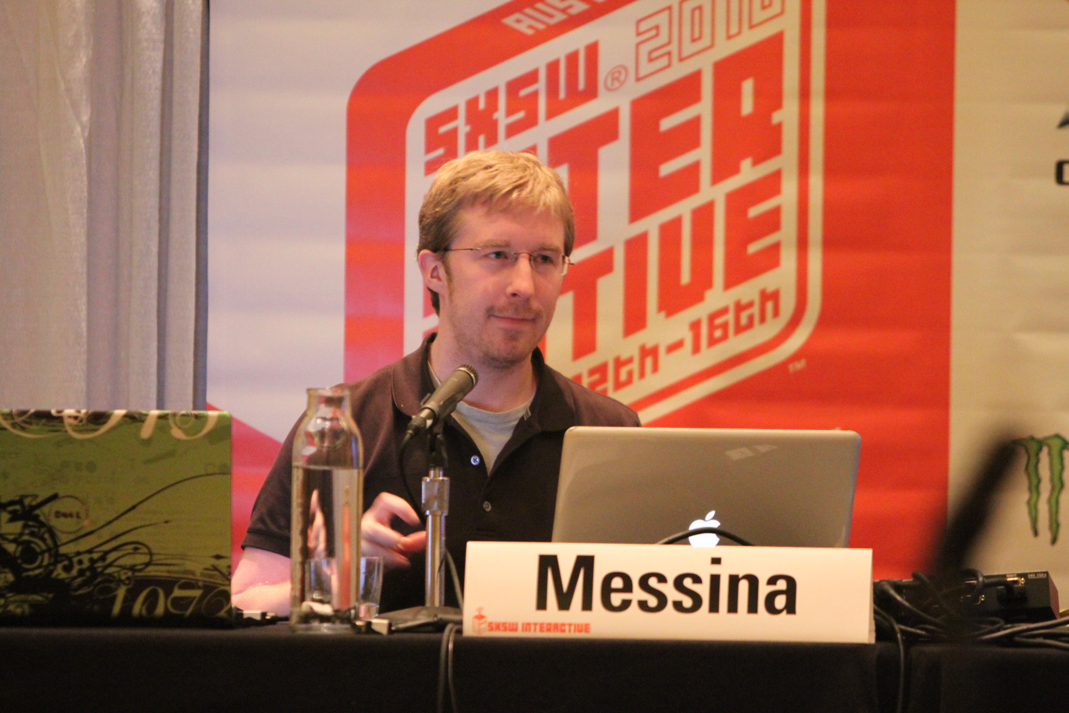 Chris Messina at South by Southwest in 2010, speaking at "ActivityStrea.ms: Is It Getting Streamy In Here?"